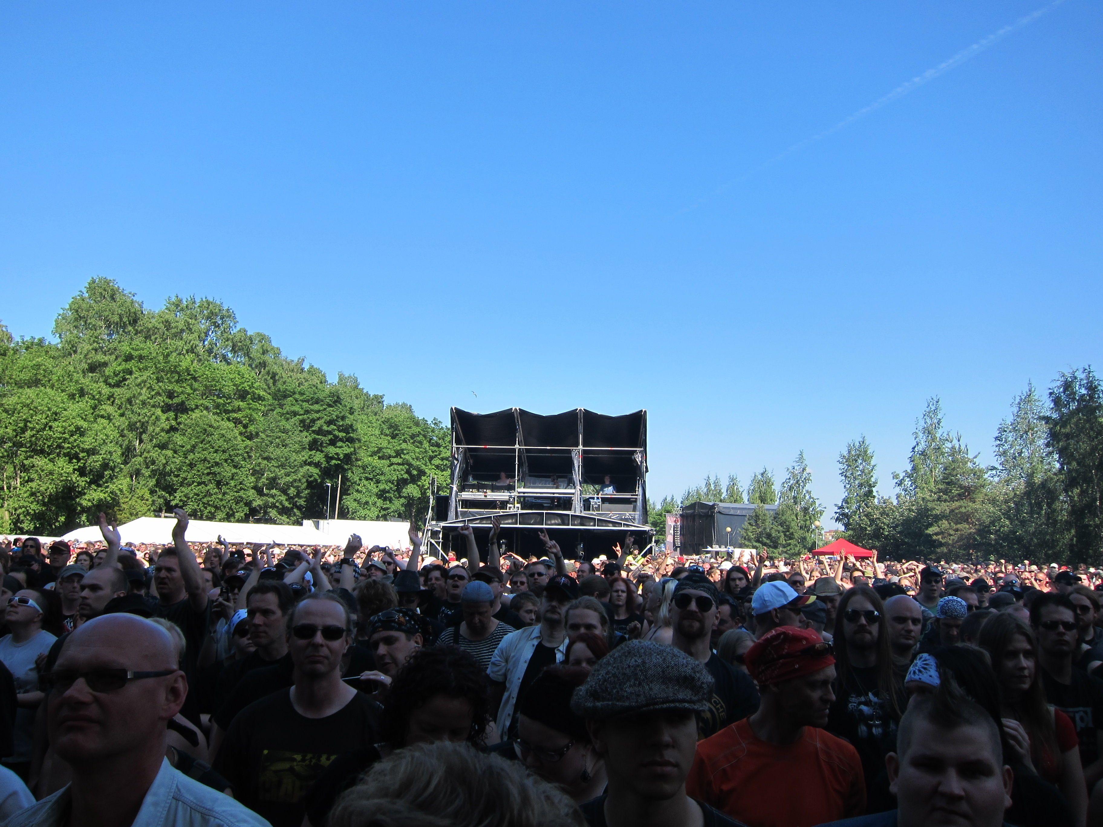 Queensrÿche performing at the Sauna Open Air Metal Festival in Tampere, Finland.